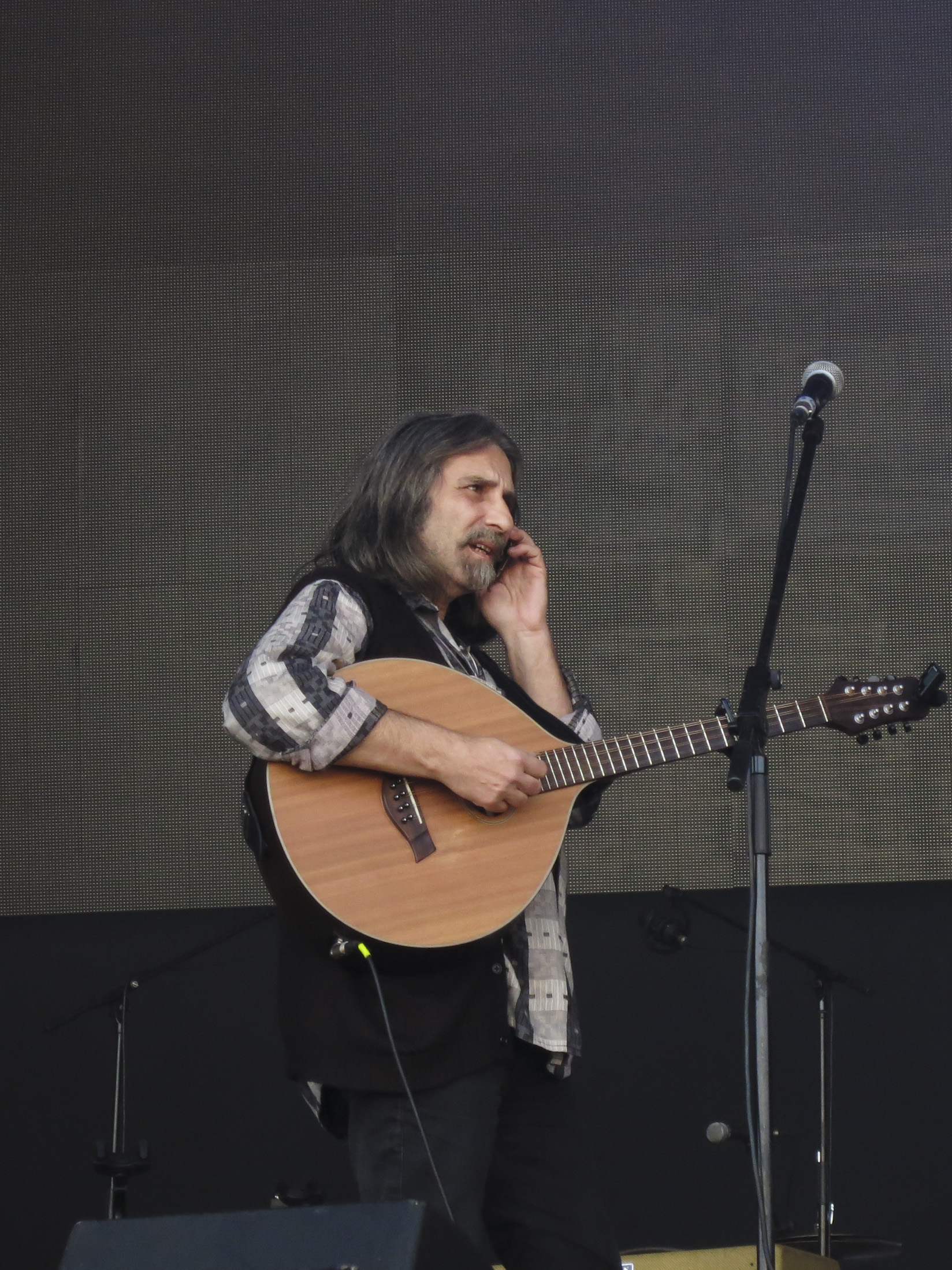 Júlio Pereira